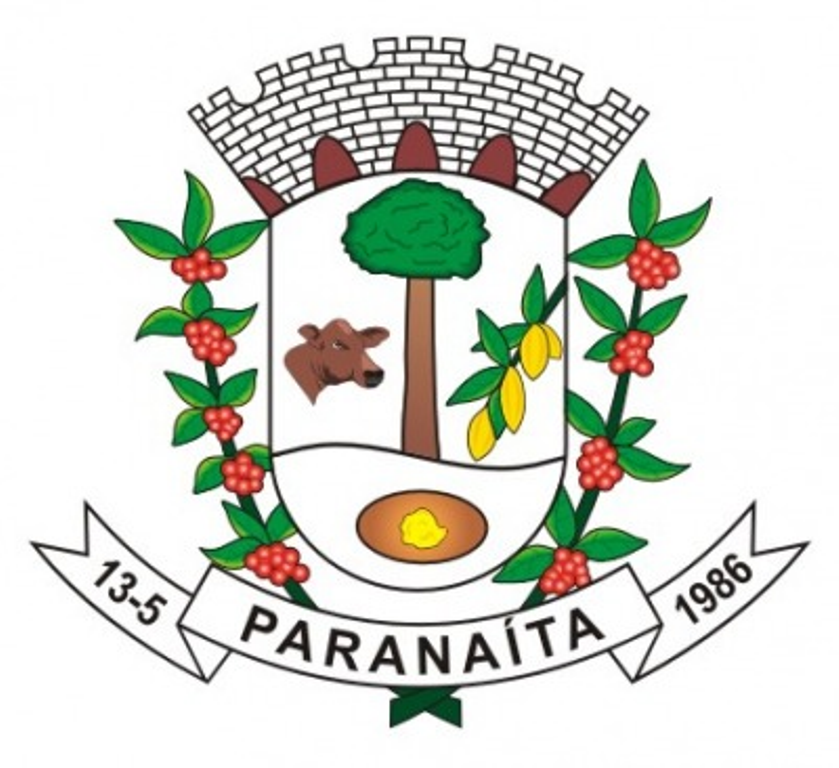 Coat of arms of Paranaíta, Mato Grosso, Brazil